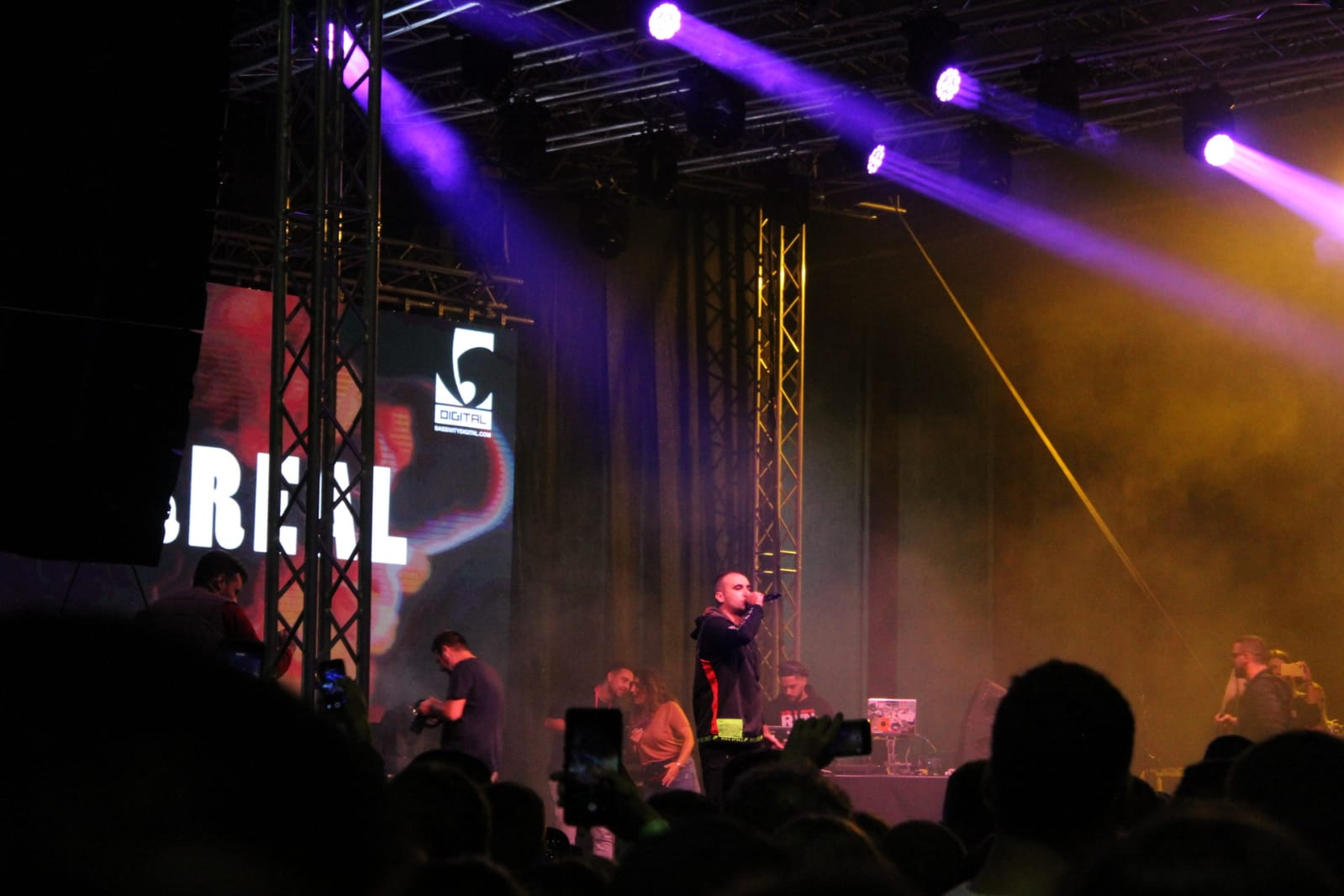 Sneakerville festival